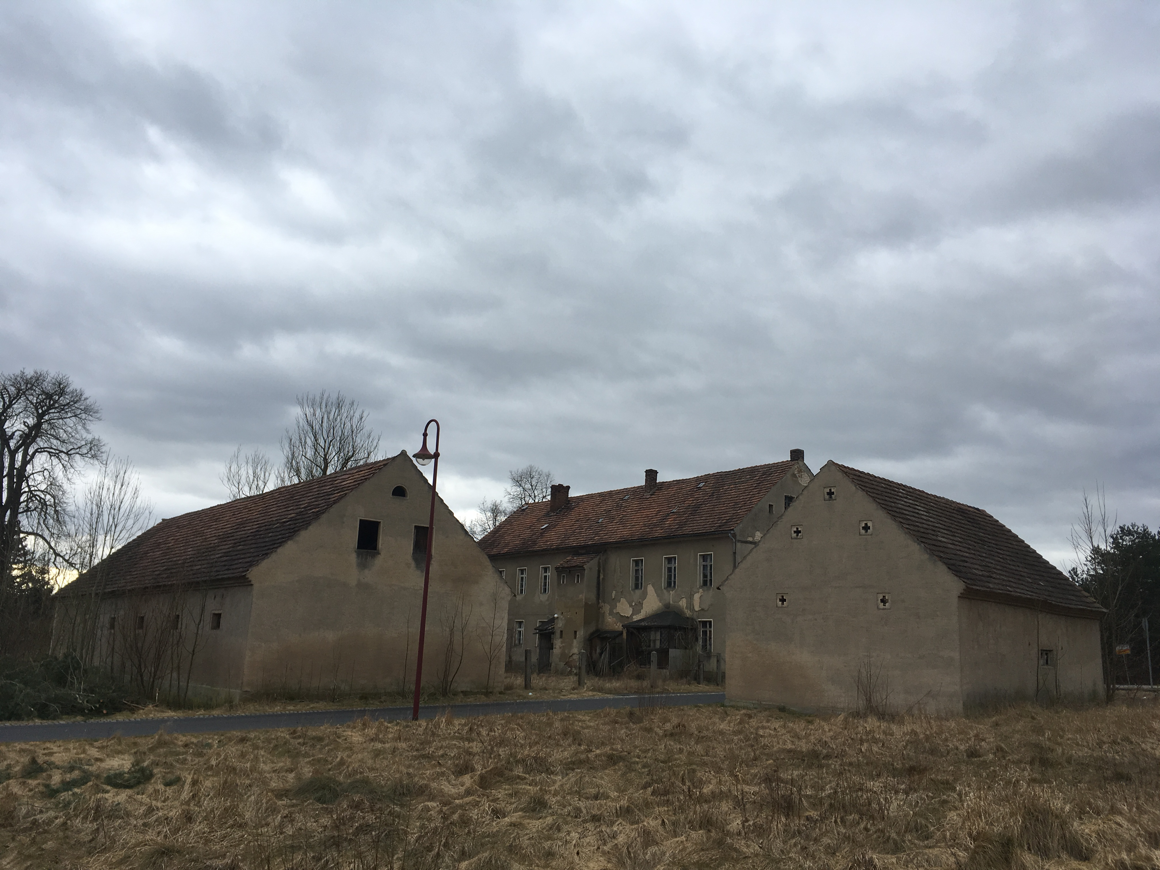 Former Inn with two outbuildings in Sandschenke (city of Niesky), gable marked with 1867, core might be a bit older; with classical reminiscences, significance for history of local development and traffic; cultural heritage monument